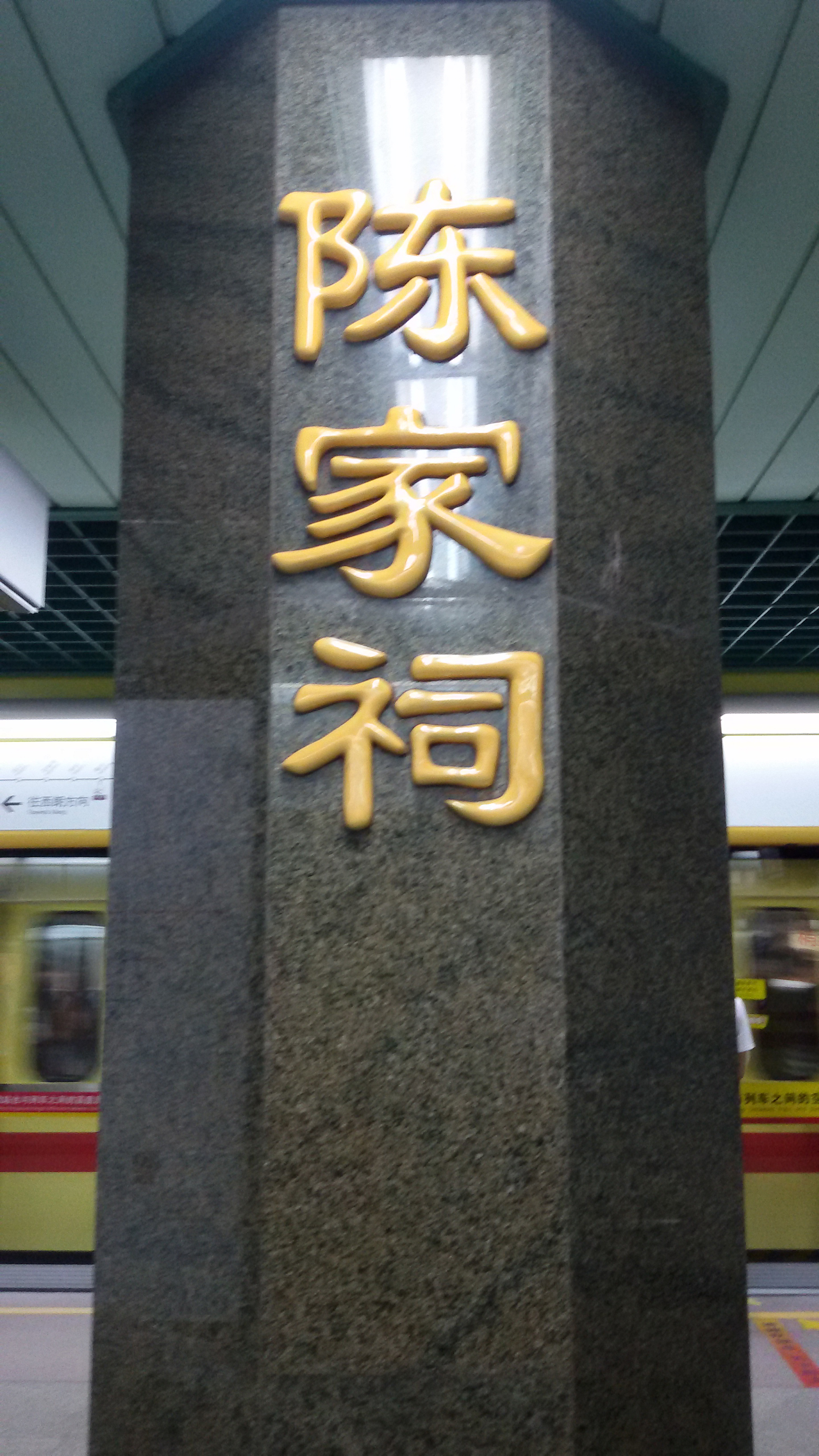 WORD on PILLAR in Chen Clan Academy Station, Guangzhou Metro 粵語: 廣州地鐵，陳家祠站嘅柱上面啲字。